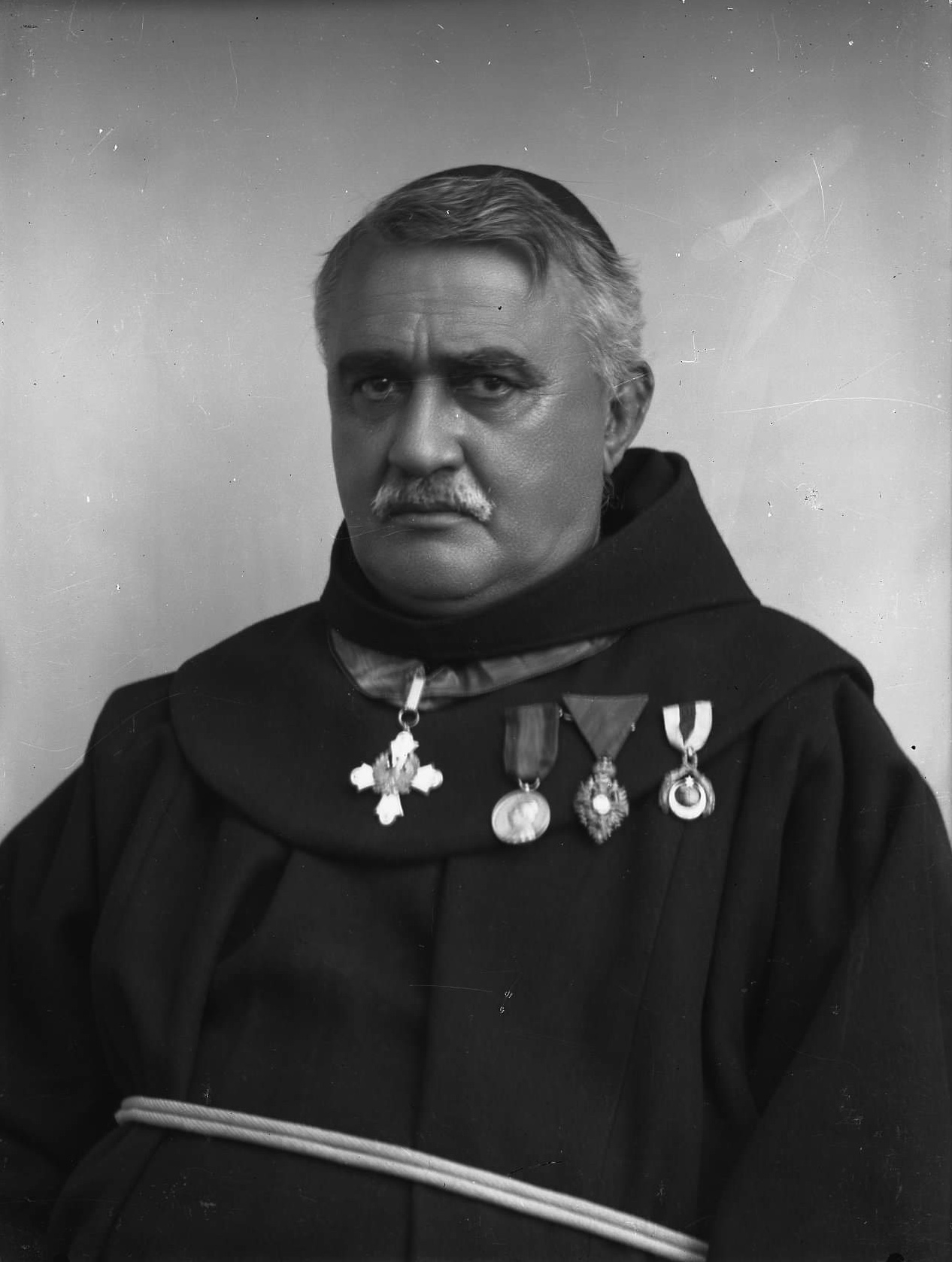 AT Gjergj Fishta